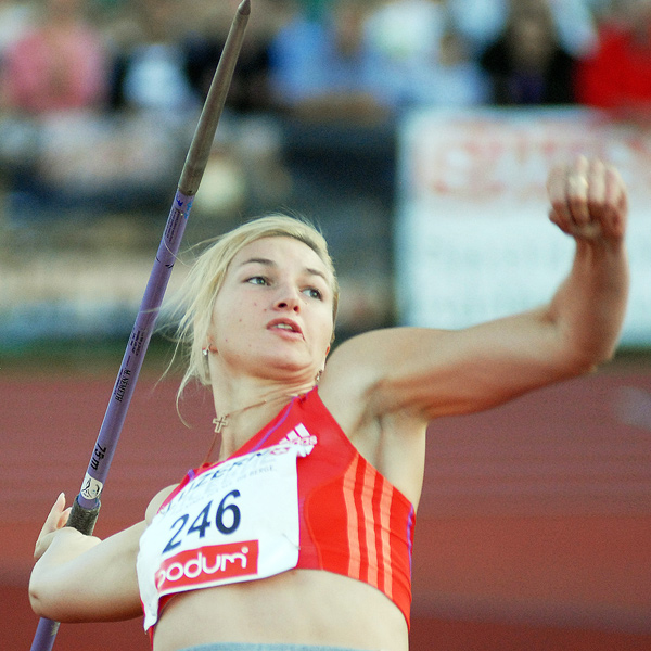 Vira Rebryk 2012 at "Spitzen Leichtathletik Luzern", Lucerne, Switzerland